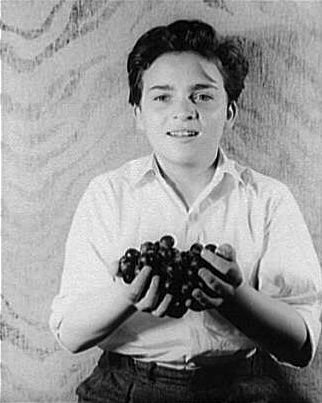 Portrait of Sidney Lumet